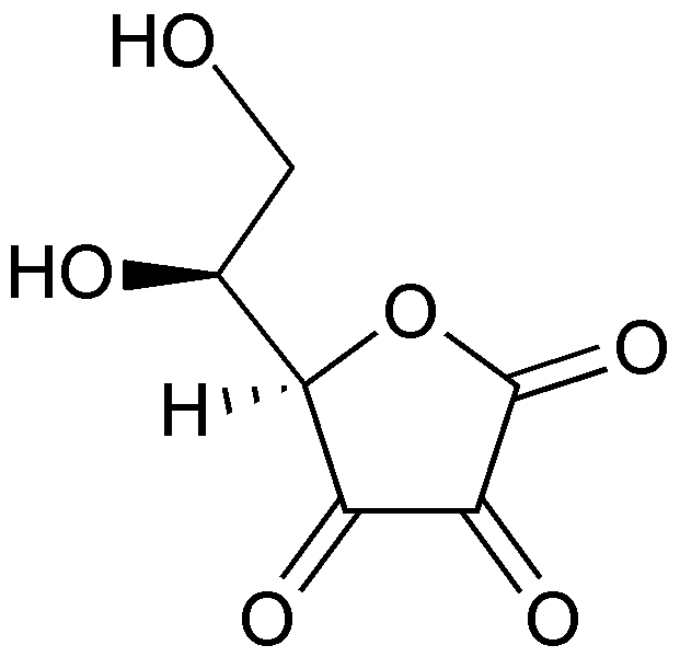 Structure of dehydroascorbic acid with Mono- and Dihydrate